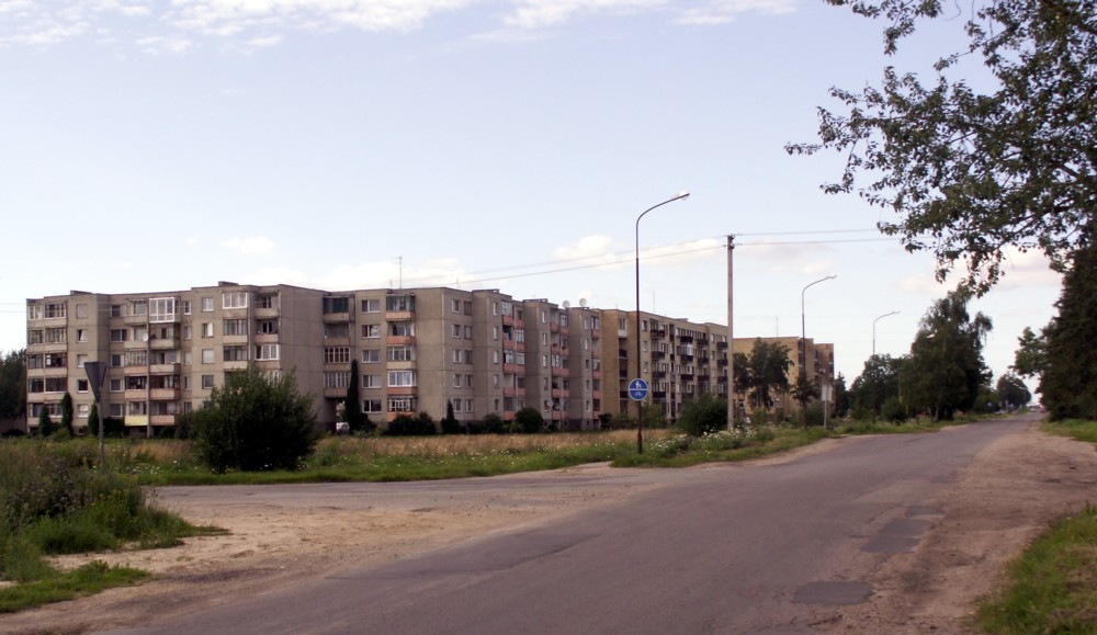 Rėkyva, Šiauliai, Lithuania